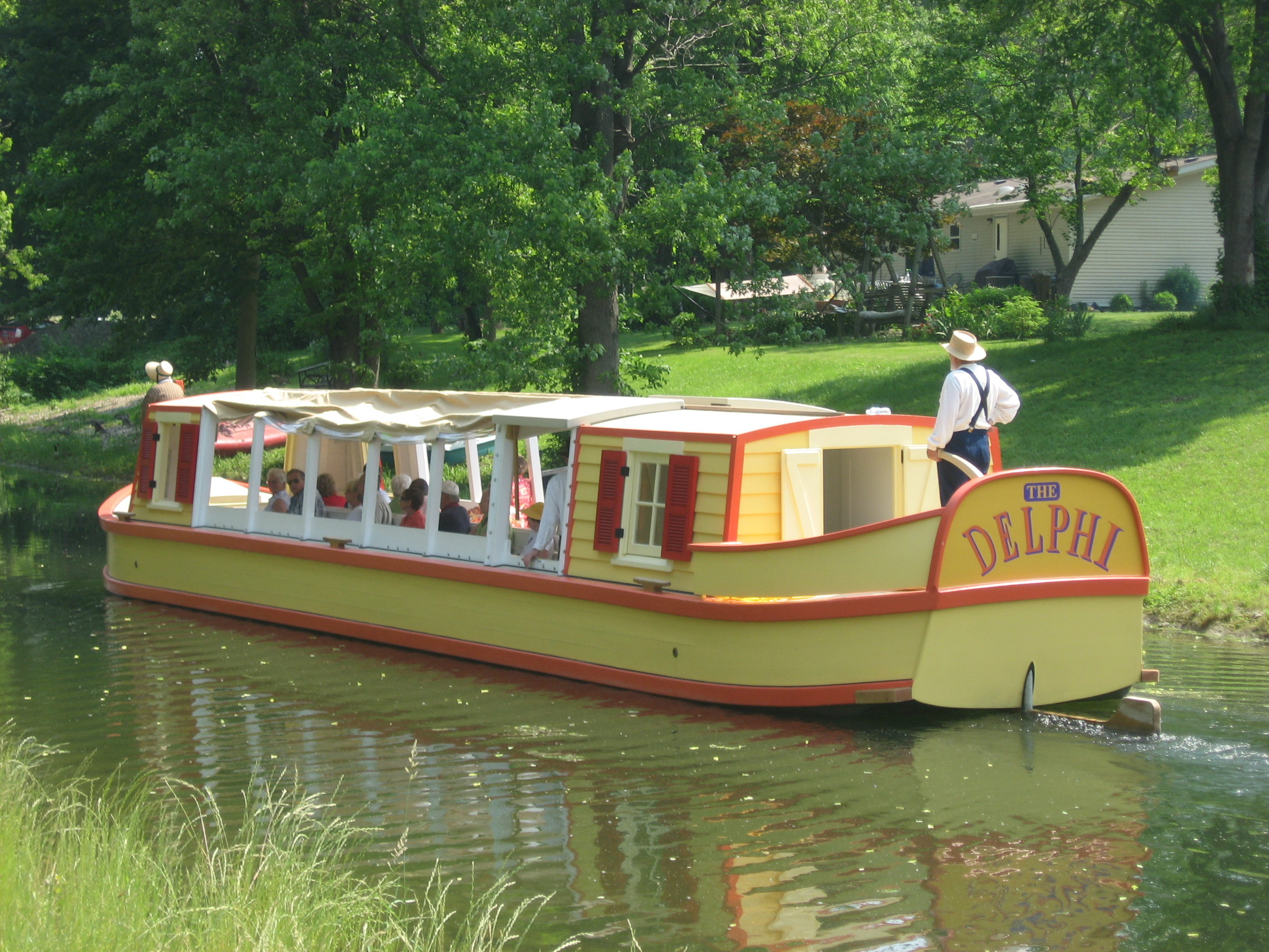 A reproduction of a Wabash and Erie Canal boat, motoring along on a restored section of the canal on the northern edge of Delphi, Indiana, United States.